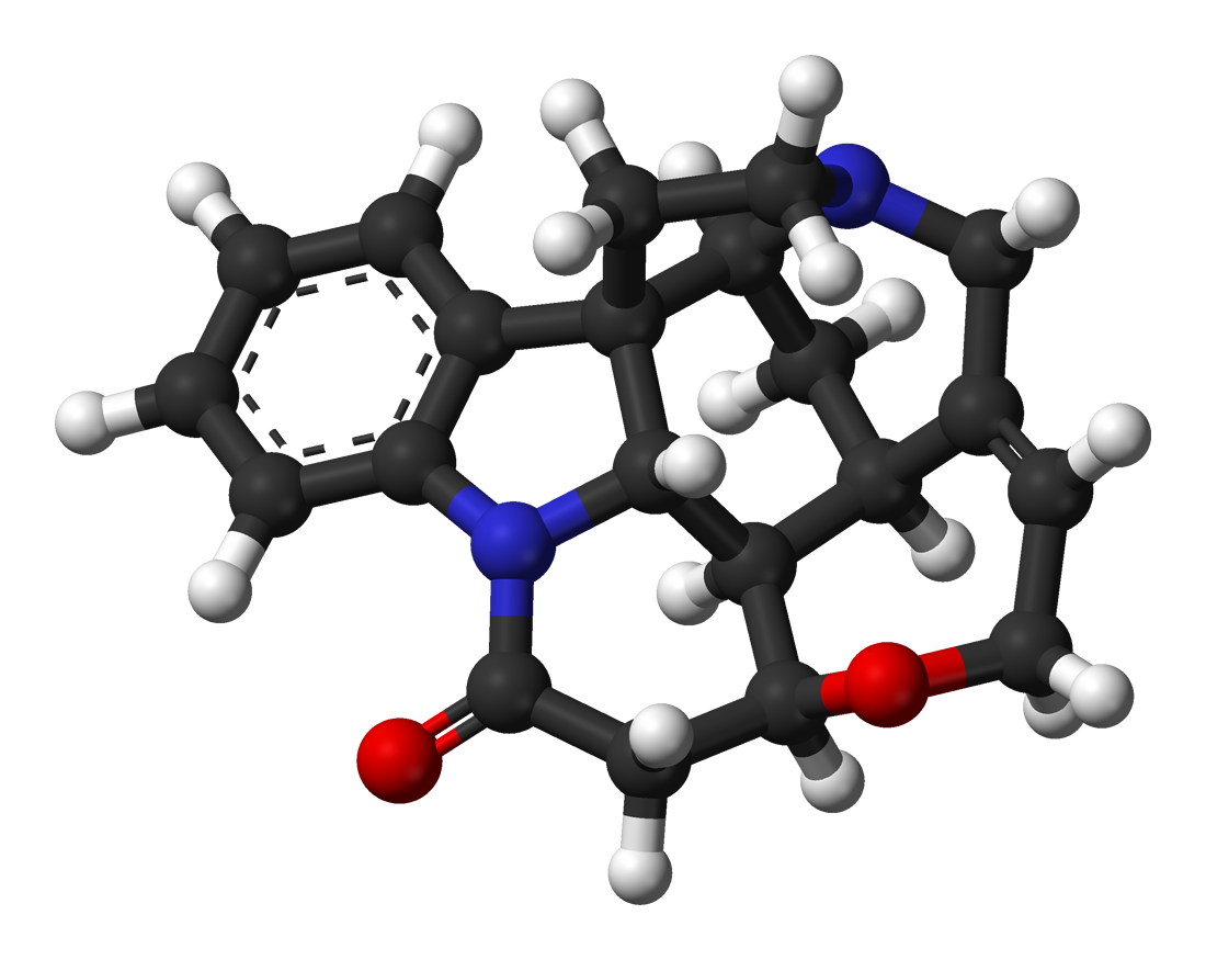 Ball-and-stick model of the (−)-strychnine molecule, C21H22N2O2. X-ray crystallographic data from M. Messerschmidt, S. Scheins and P. Luger (February 2005). "Charge density of (-)-strychnine from 100 to 15 K, a comparison of four data sets". Acta Cryst. B61 (1): 115-121. Image generated in Accelrys DS Visualizer.